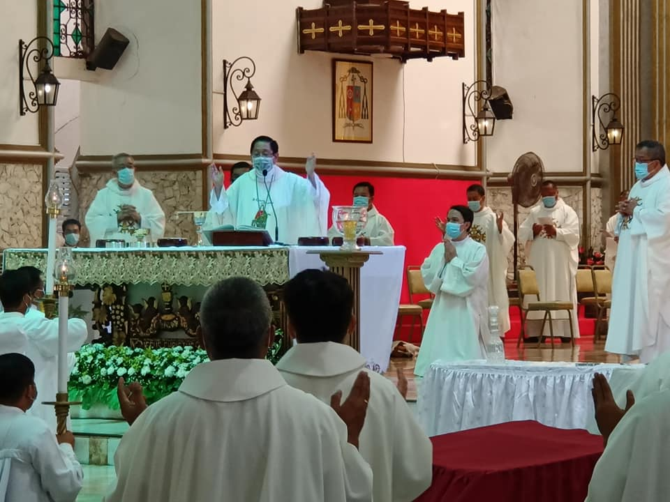 The Diocese of Dumaguete reiterates its support to the local health protocols enforced by the City of Dumaguete and Province of Negros Oriental to prevent the spread of COVID-19. Members of the clergy gathered today (August 4) to celebrate Chrism Mass with the faithful and local government officials to include Mayor Felipe Antonio Remollo, Vice-Governor Mark Macias, Board Member Mariant Villegas, First District Rep. Jocelyn Limkaichong and Capitol Consultant Dr. Henry Sojor.